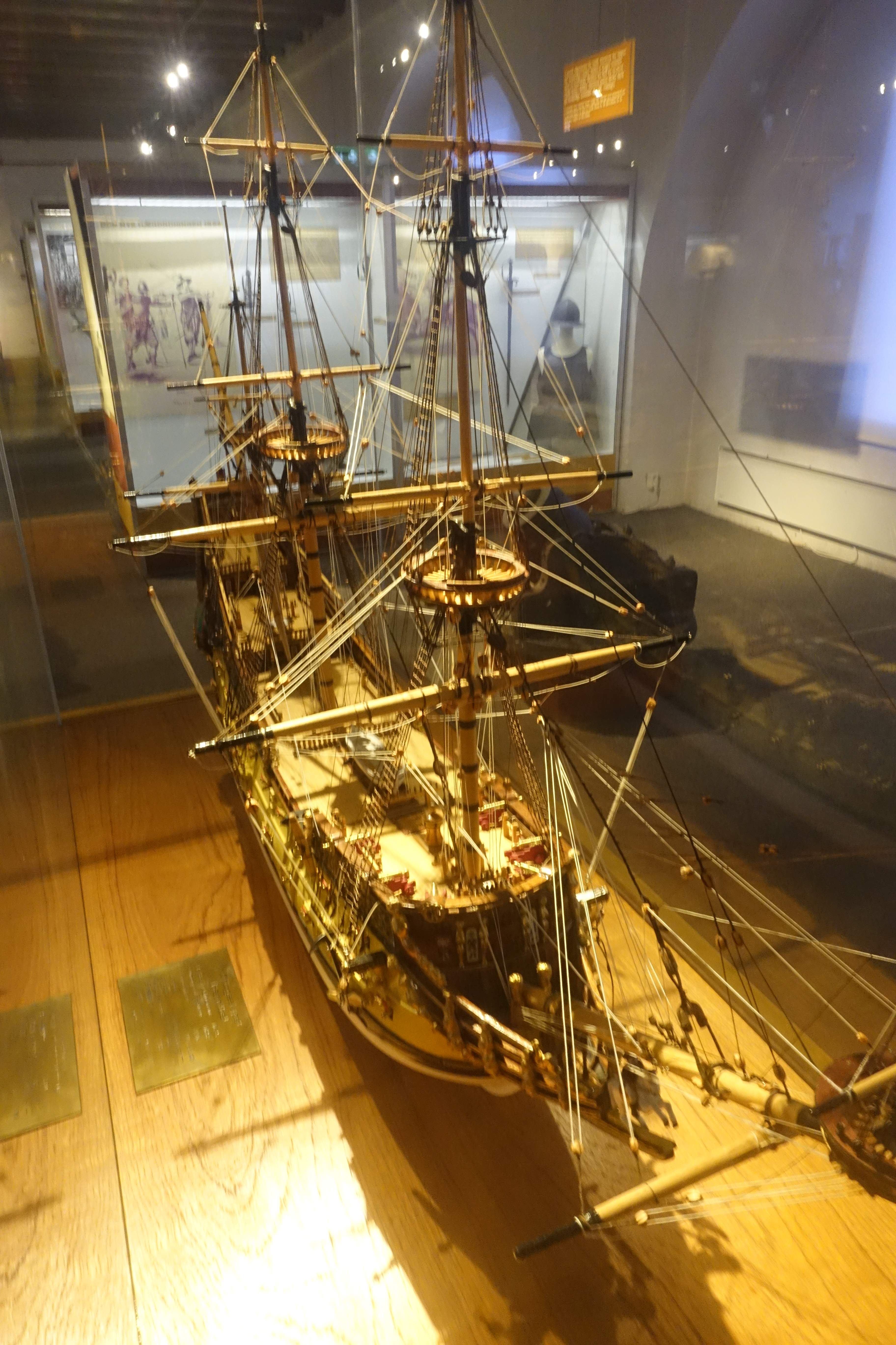 Model of Dano-Norwegian warship "Hannibal" built in Chistiania (now Oslo, Norway) 1645–47, renamed "Svanen" ("The Swan") 1658, condemned 1716. From the exhibitions at the Armed Forces Museum (Forsvarsmuseet) in Oslo, Norway.